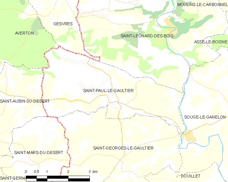 Map of French municipality